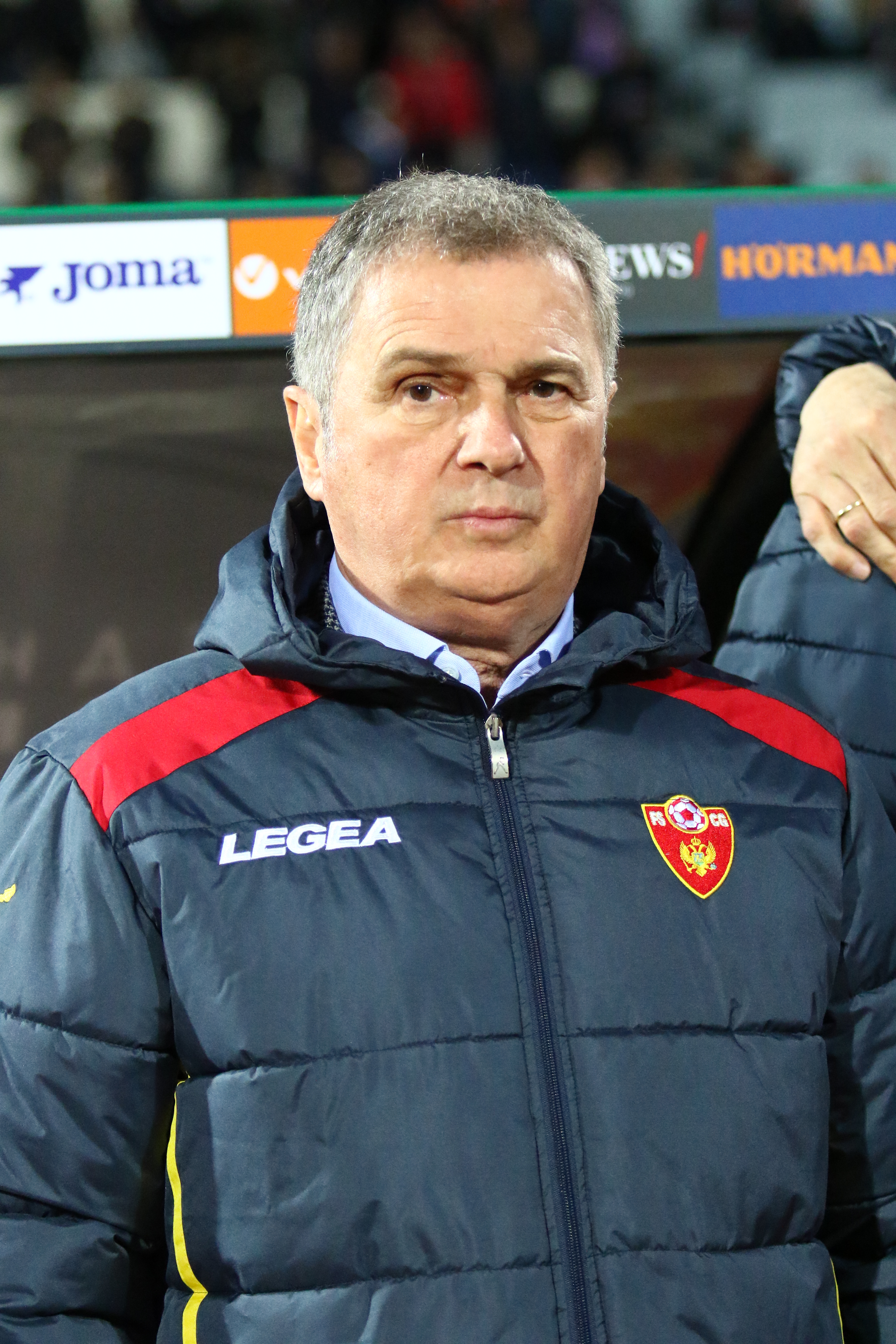 Ljubiša Tumbaković (born 2 September 1952) is a Serbian football manager. He is the most successful coach in the history of Serbian powerhouse Partizan which he led to six national championship titles and three national cup wins during his two spells at the club between 1993 and 2001. Following a stint with Wuhan Zall in the Chinese Super League, he was appointed head coach of the Montenegrin national team on 19 January 2016.